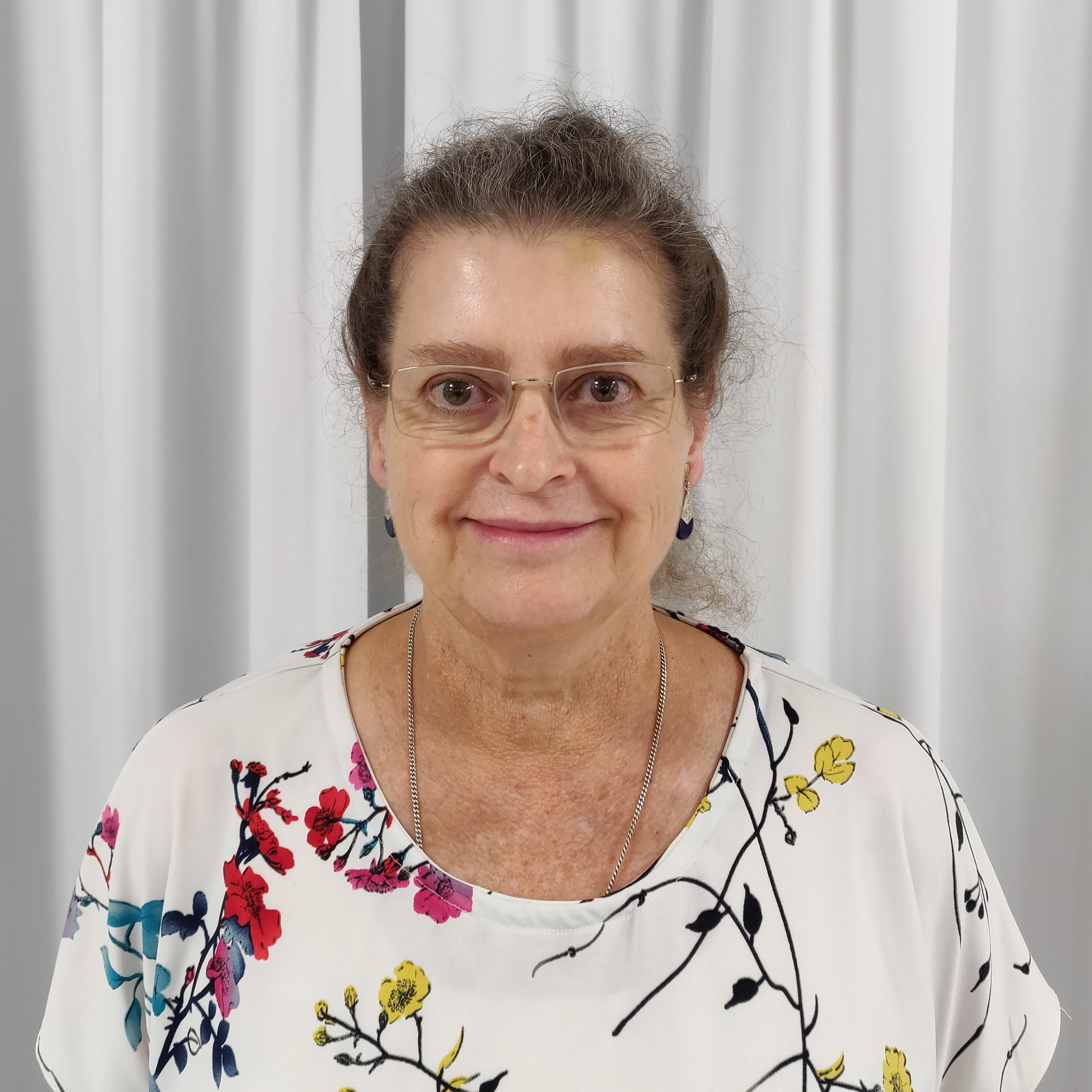 Igle Gledhill at the Gender gap in science conference at ICTP in Trieste.November 7th, 2019.